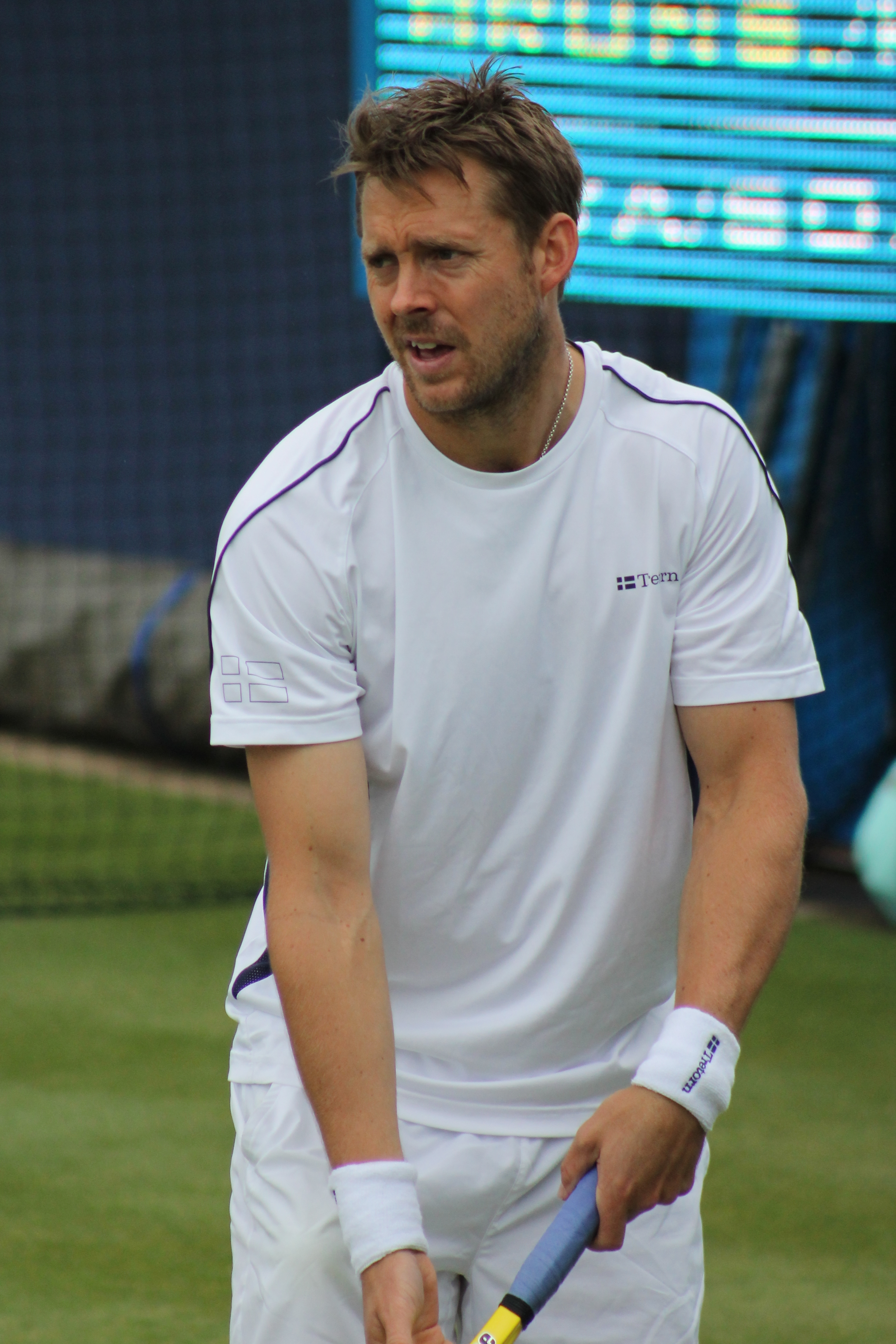 Johan Brunström playing in the Mens Doubles at Queens Club on 13 June 2013; partner was Raven Klaasen (RSA); opponents were Alexander Peya (AUT) & Bruno Soares (BRA)